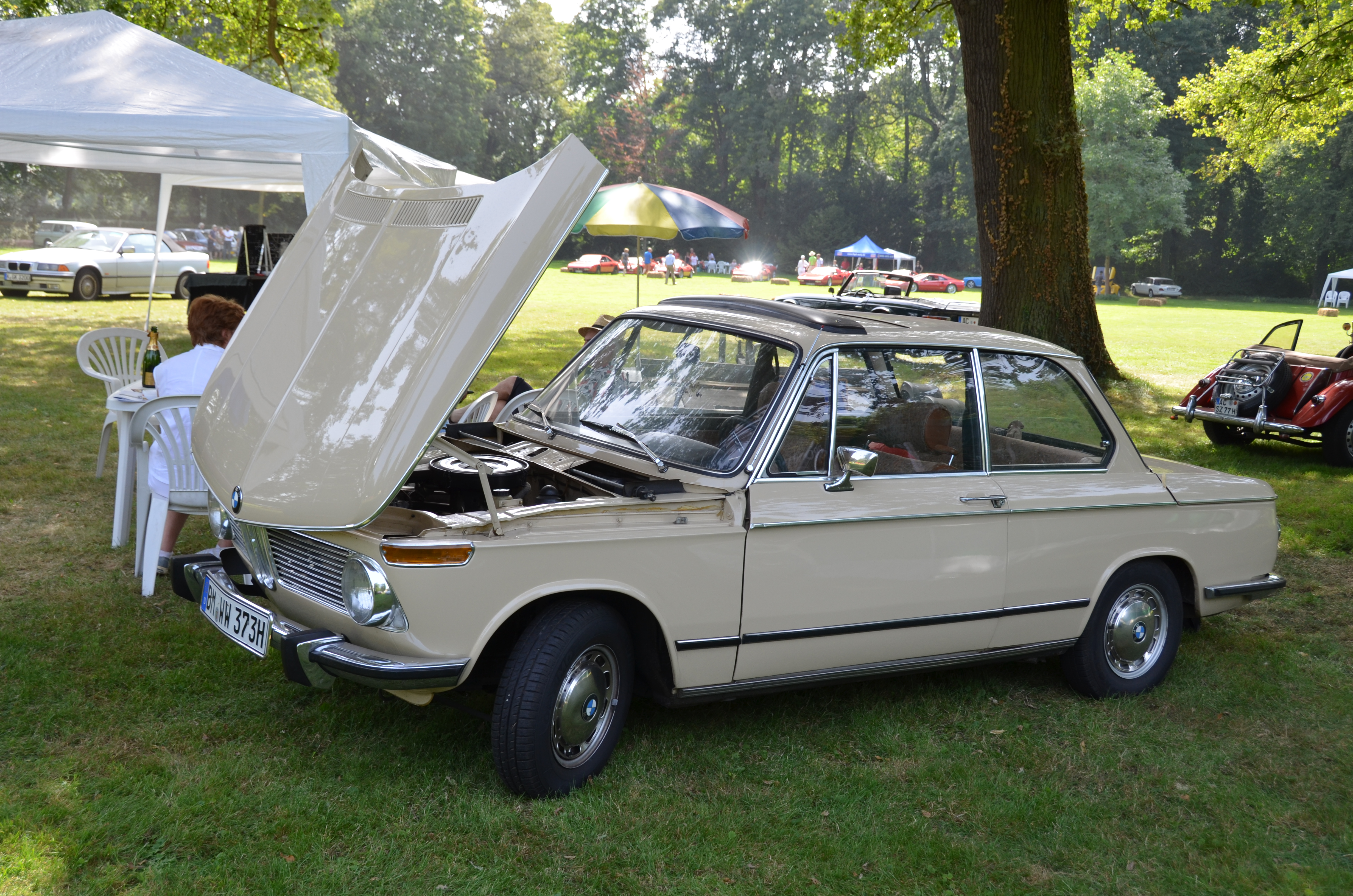 Cars and impressions at 25. Graf Berghe von Trips Gedächtnisfahrt 2012 in Kerpen